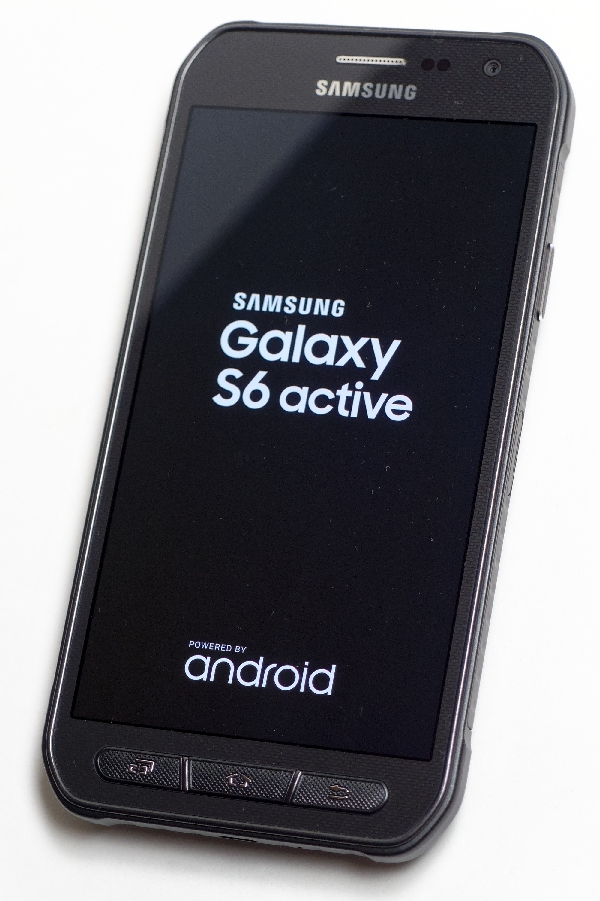 Samsung Galaxy S6 Active, gray model, showing the splash screen during boot.